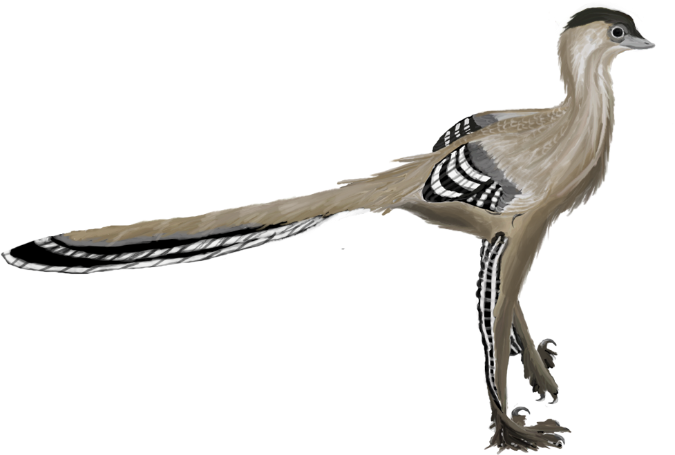 Illustration of the troodontid dinosaur Mei long, with feathers inspired by the related Anchiornis huxleyi. Graphite/digital.